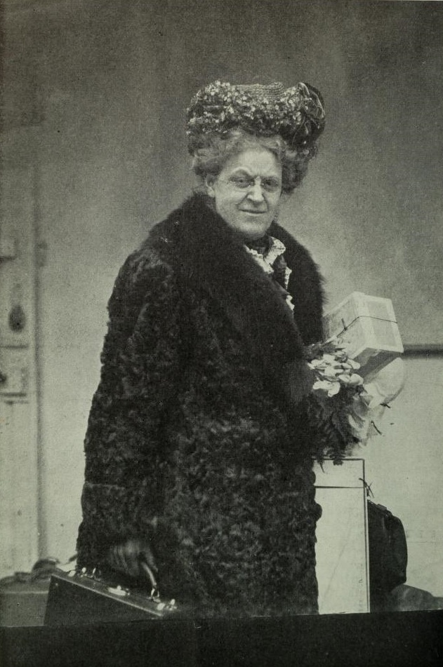 Portrait of Carrie Chapman Catt